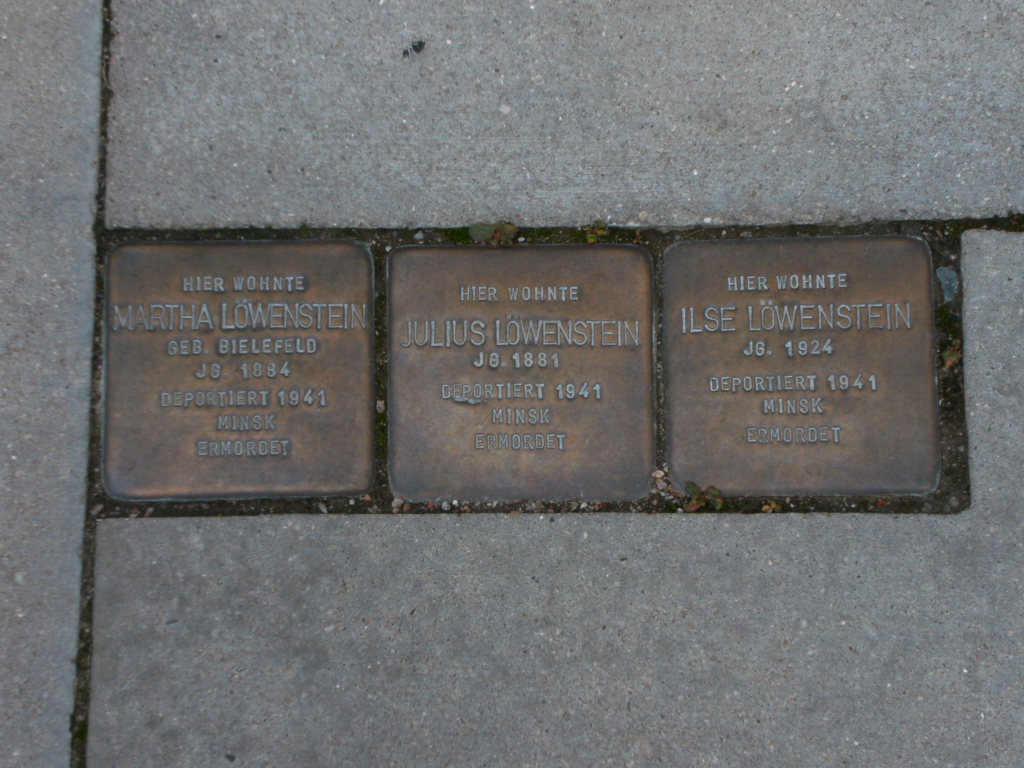 Hamburg, Germany, Humboldtstraße 56: New building of Kassenärztlichen Vereinigung Hamburg (physicians) of 2017. Stolpersteine Löwenstein